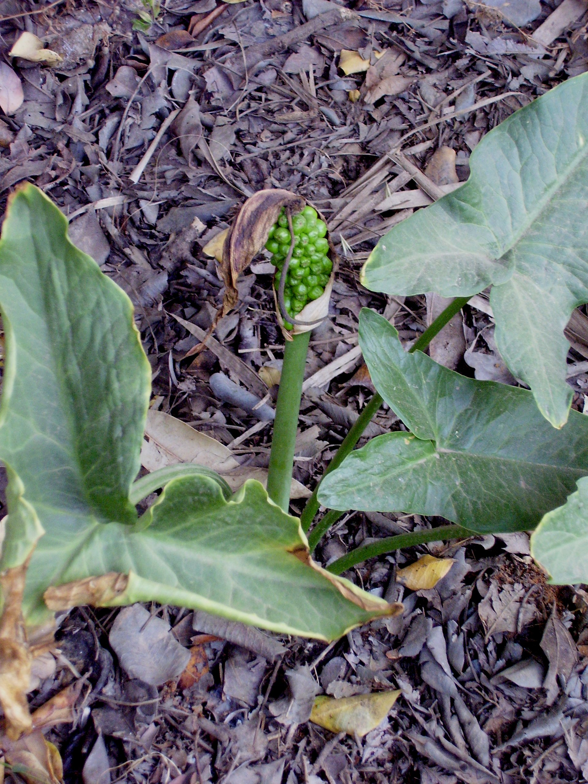 Arum palaestinum fruit in Karkur, Israel